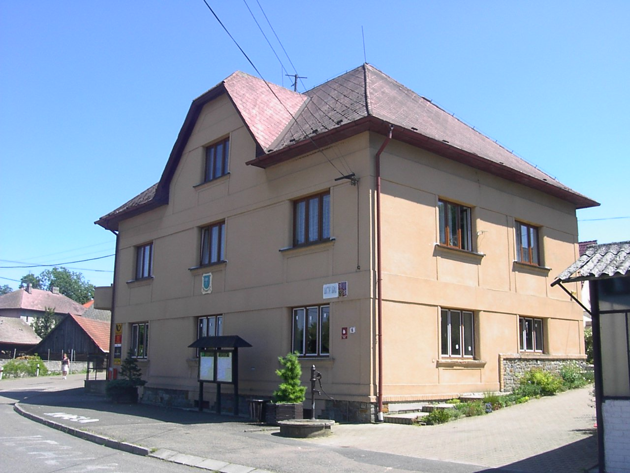 Municipality office Cheznovice